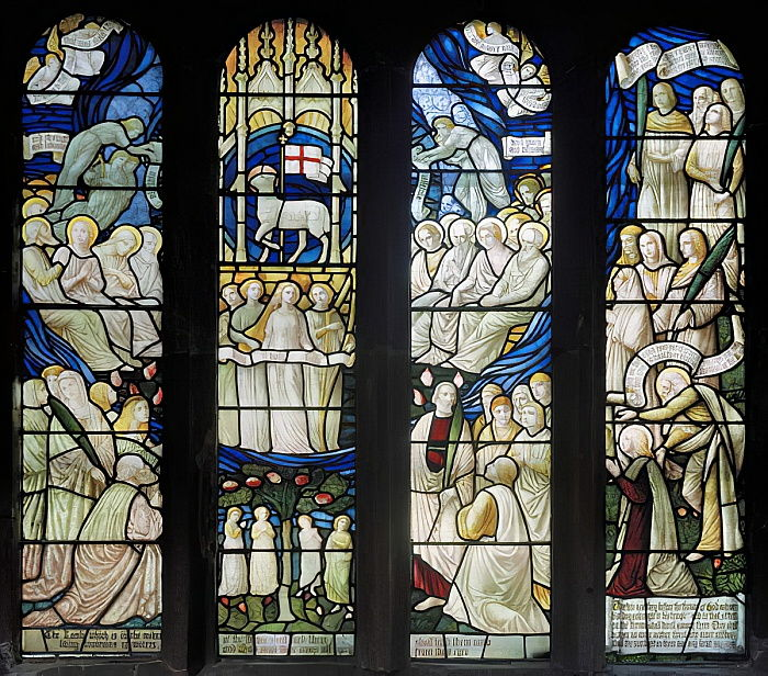 Stained-glass window in St Wilfrid's Church, Grappenhall, Cheshire. It was produced by the firm of Shrigley and Hunt from a design by Carl Almquist (1848-1924).